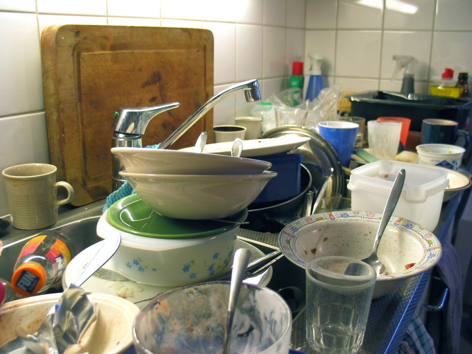 Unwashed dishes in a sink; an authentic situation.